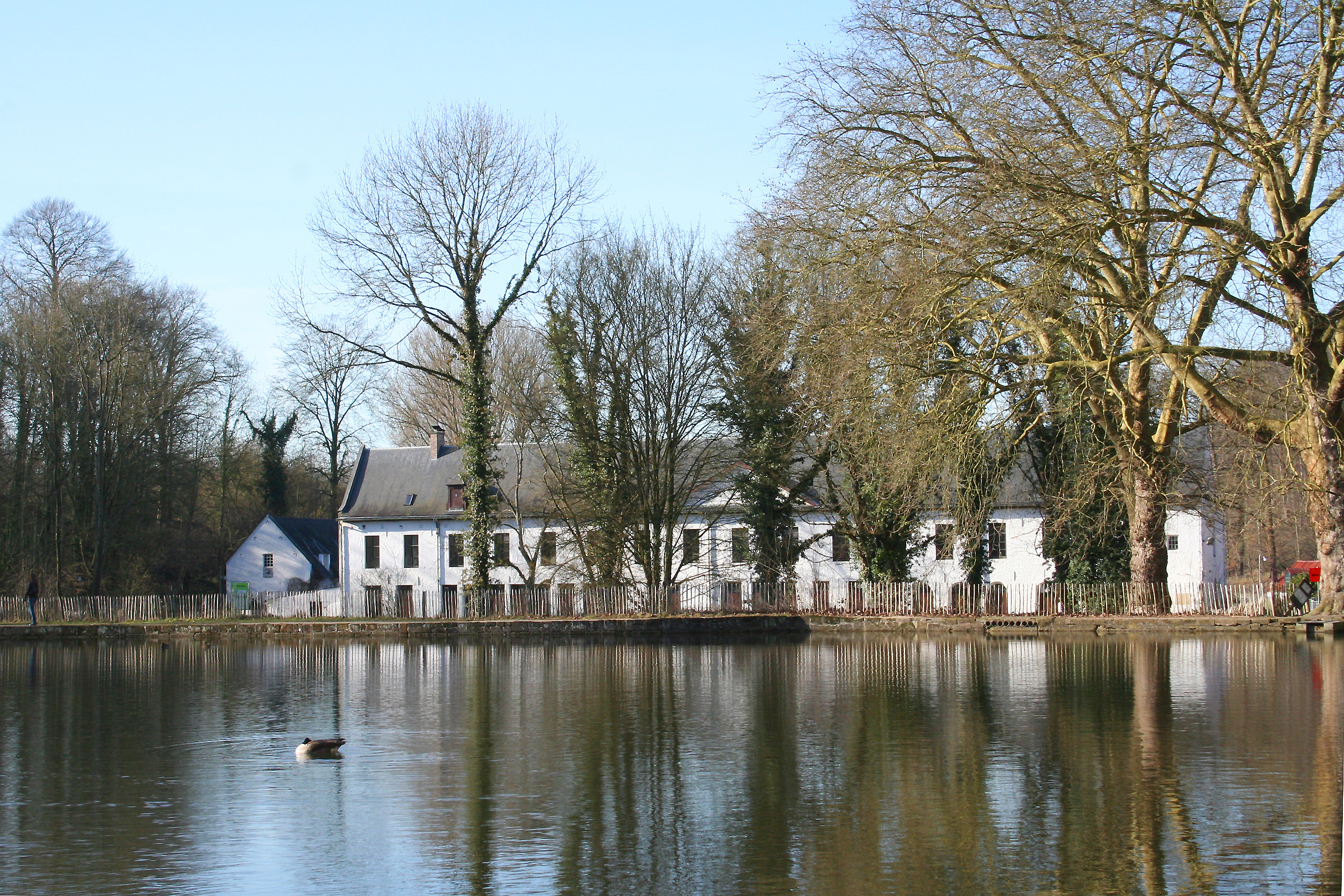 Auderghem (Belgium), the Watermill Pond and the buildings of the Rouge-Cloître (Red Cloister) Abbey founded in the XIVth century by the hermit Egide Olivier and the canon Guillaume Daniels.